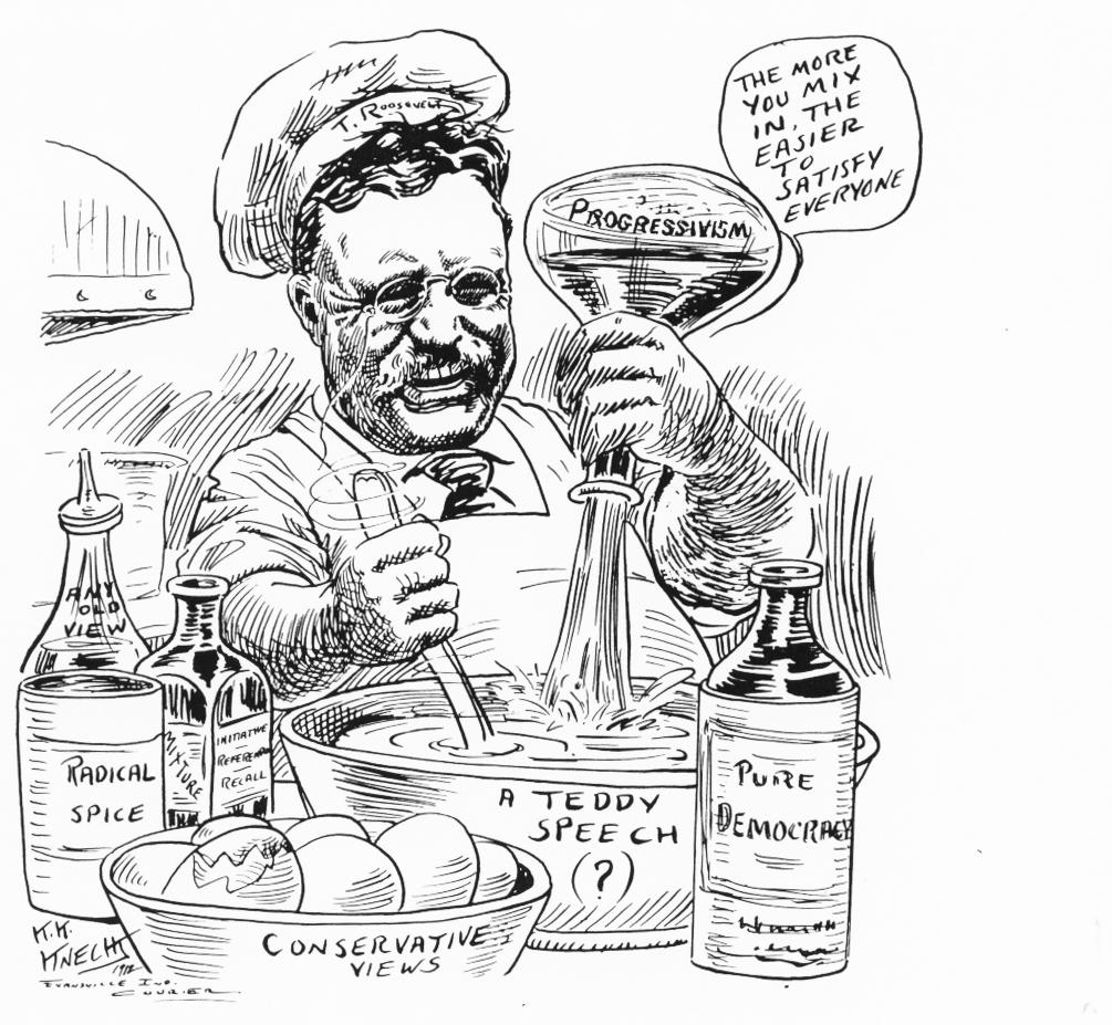 Into a bowl labeled “A Teddy Speech,” Roosevelt pours Progressivism; other ingredients near at hand are Conservative Views, Pure Democracy, and Radical Spice. “The more you mix in, the easier to satisfy everyone,” says Teddy cheerfully. Editorial cartoon by Karl K. Knecht (1883-1972) in Evansville Courier, Oct. 1912.